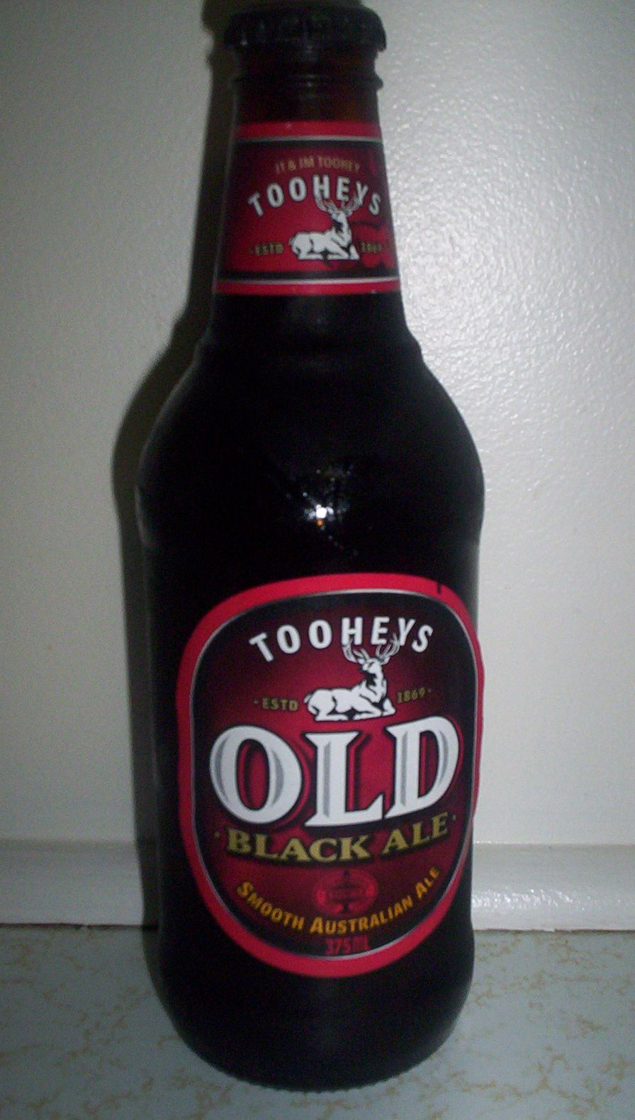 Tooheys old Australian beer, I took the photo